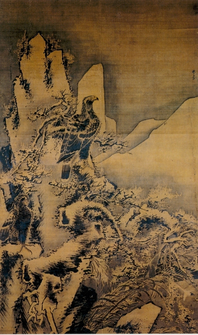 Lin Liang. "Eagle and Wild Goose", Palace Museum, Beijing.